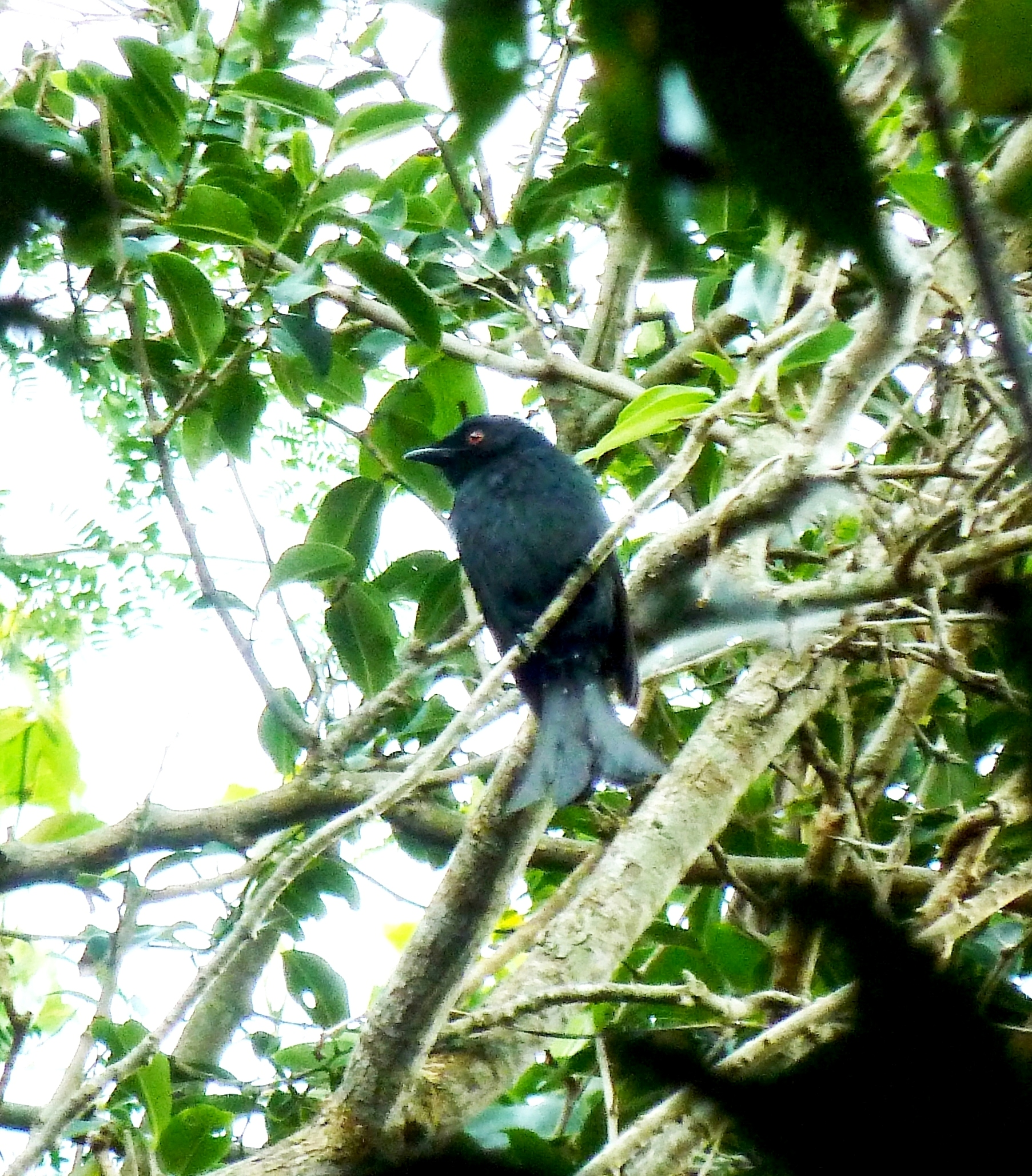 Square-tailed Drongo in coastal forest canopy the Umhlanga Lagoon Nature Reserve near Umhlanga, KwaZulu-Natal